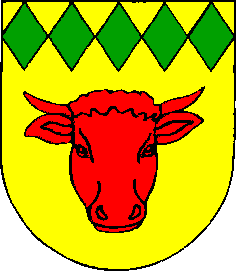 Coat of arms of the former Amt (county) Schuby in Schleswig-Holstein, Germany.